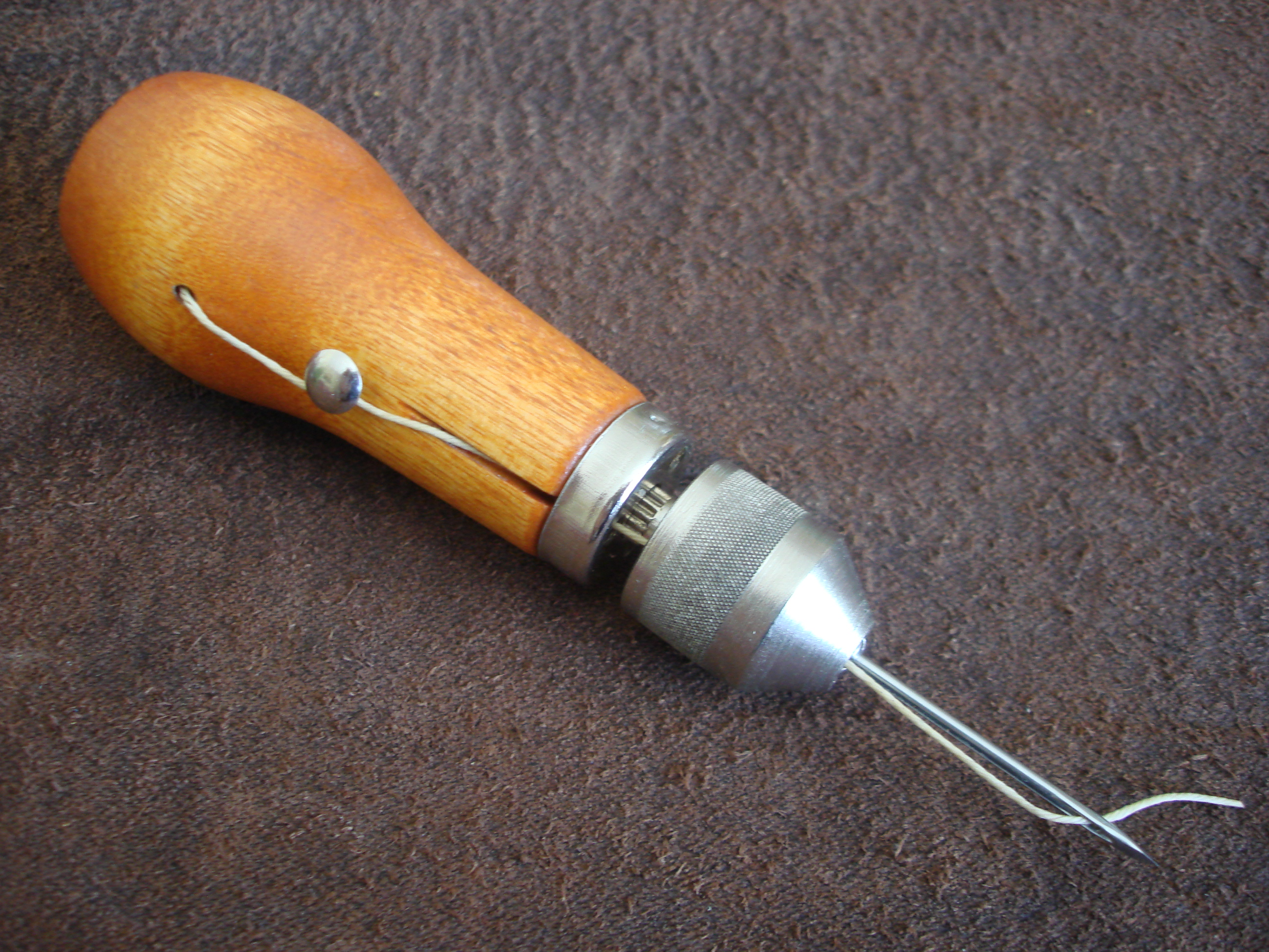 Sewing awl